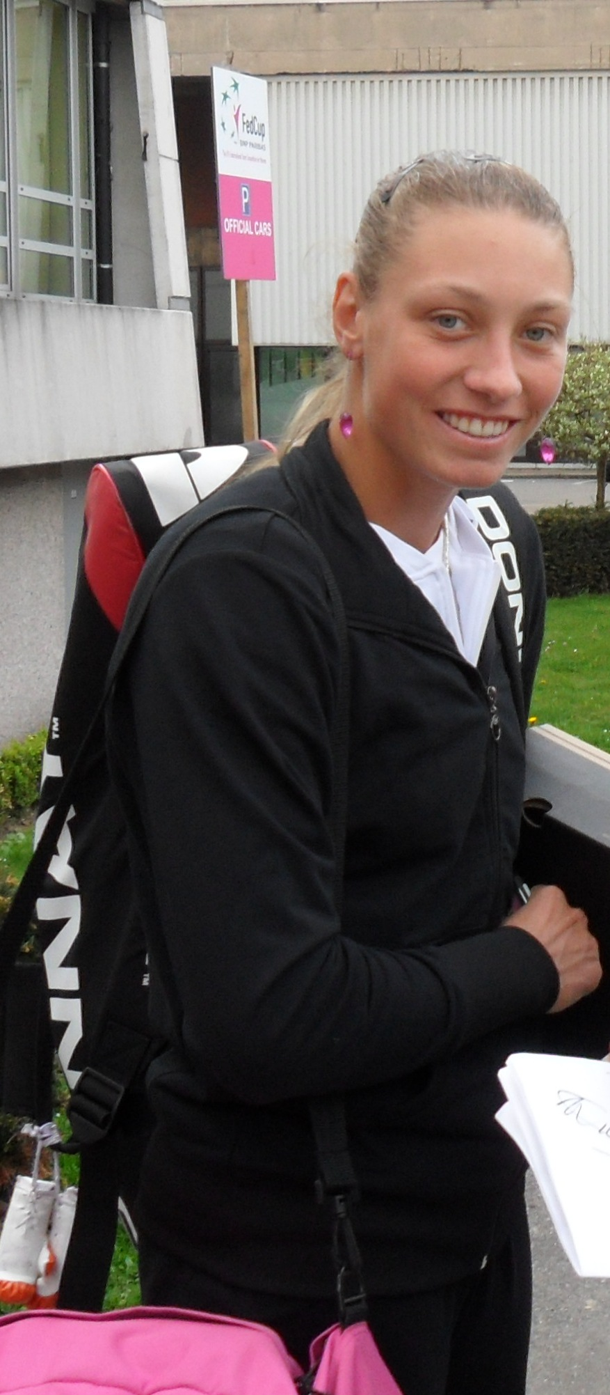 Yanina Wickmayer at the 2011 Fed Cup Semifinals against Czech Republic in Charleroi, Belgium on April 16, 2011.